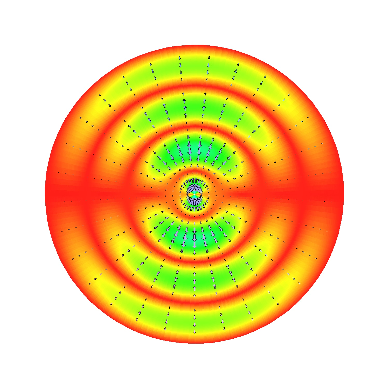 Plot of E and H fields on the TEnl mode defined by n and l.